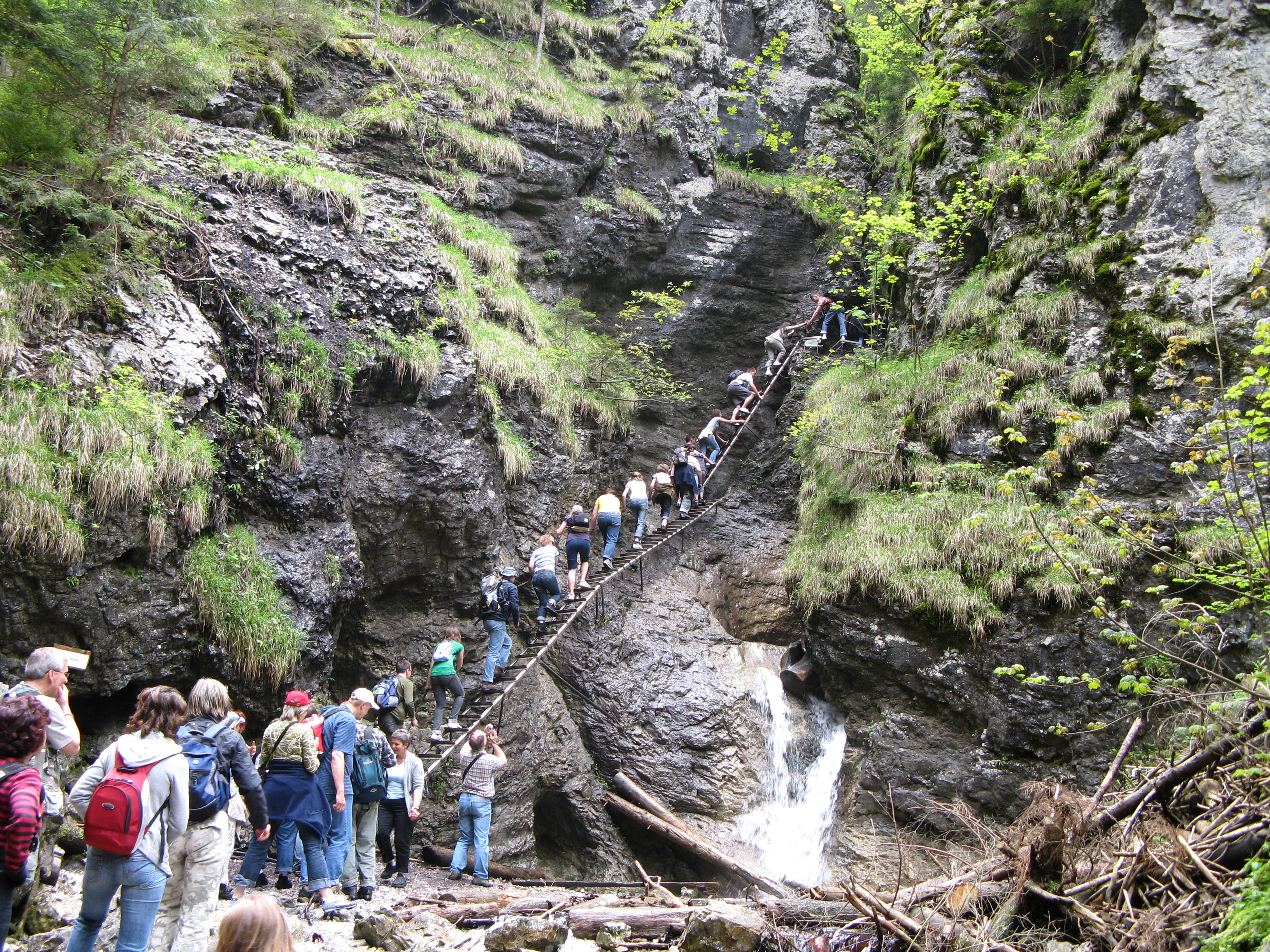 Suchá Belá Gorge in Slovak Paradise